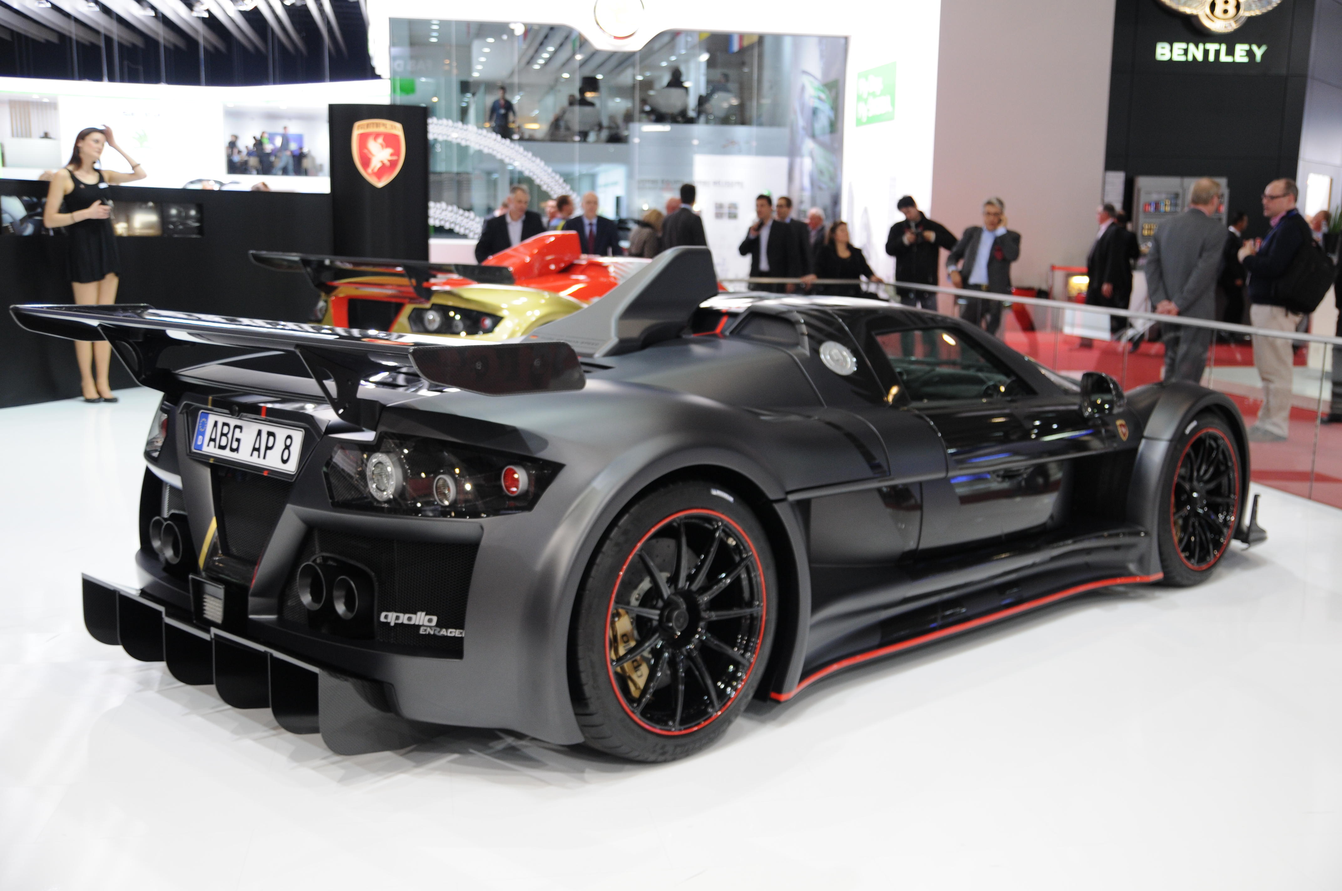 Geneva Motor Show 2012 (photos taken on the second press day)